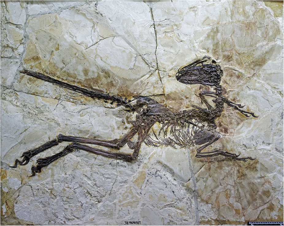 Figure 1: The holotype of the large-bodied, short-armed Liaoning dromaeosaurid Zhenyuanlong suni gen et. sp. nov. (JPM-0008).